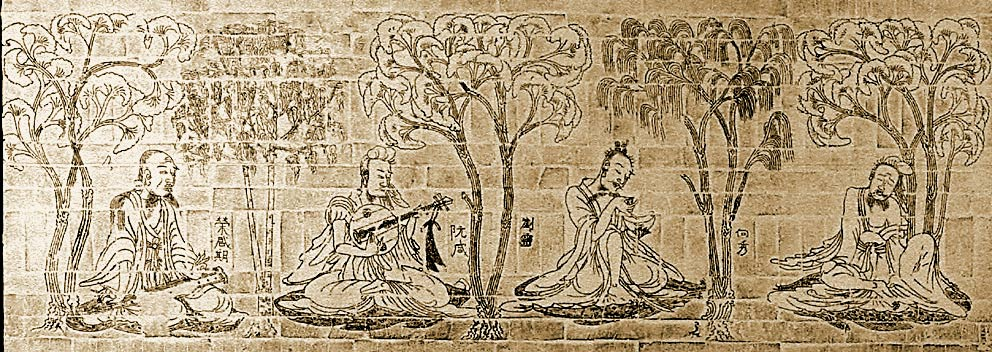 Seven worthies of the bamboo grove